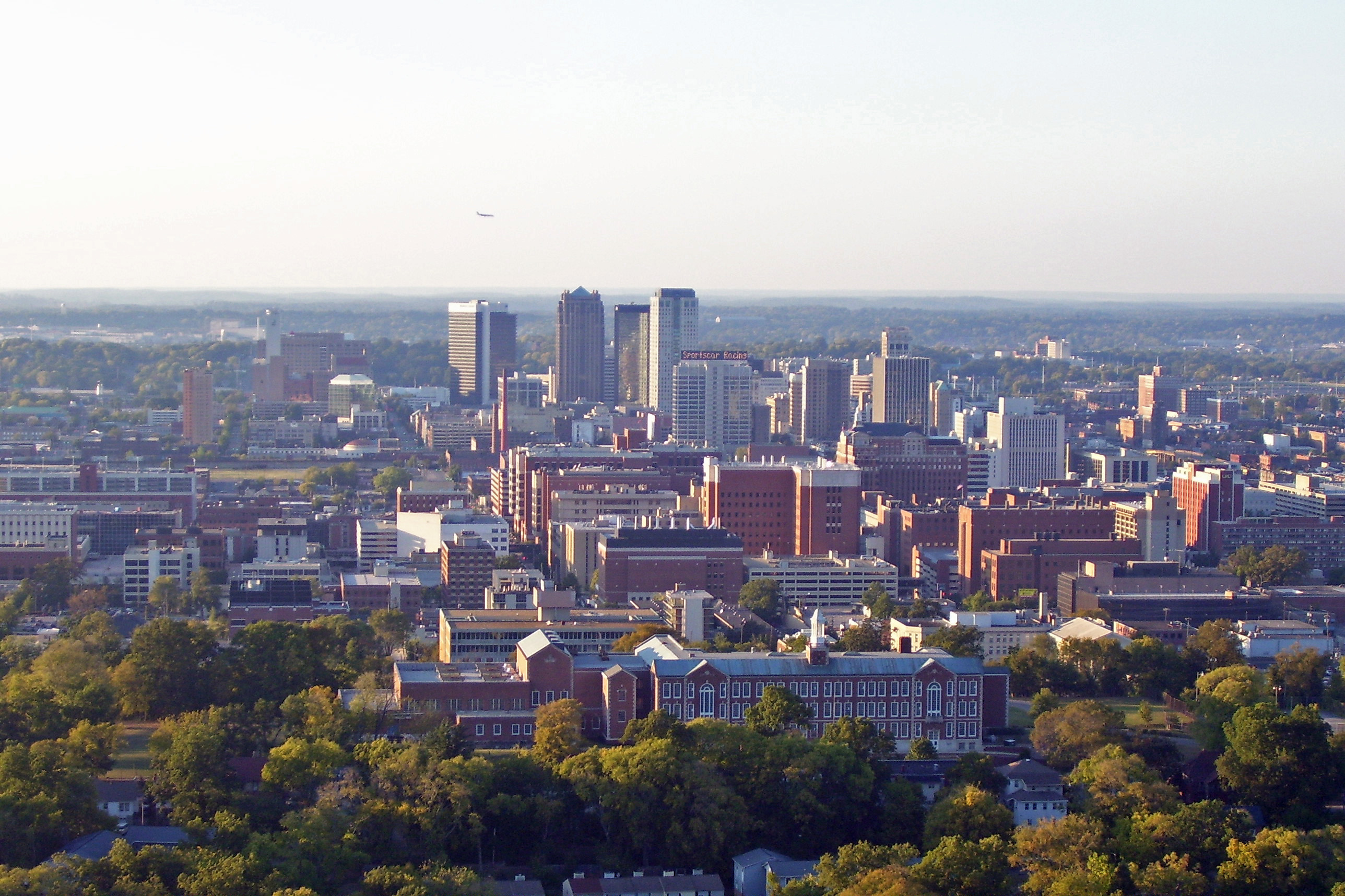 Birmingham, Alabama skyline from the highest point atop Red Mountain